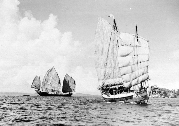 Reproduction from negative. Chinese junks Sin Tong Heng and Tek Hwa Seng in the Singapore Strait